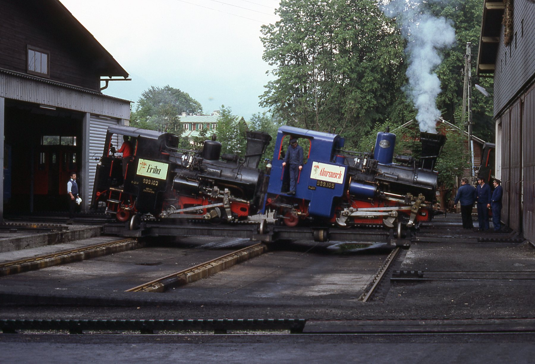 999.103 and 105 on the traverser at St. Wolfgang engine shed.